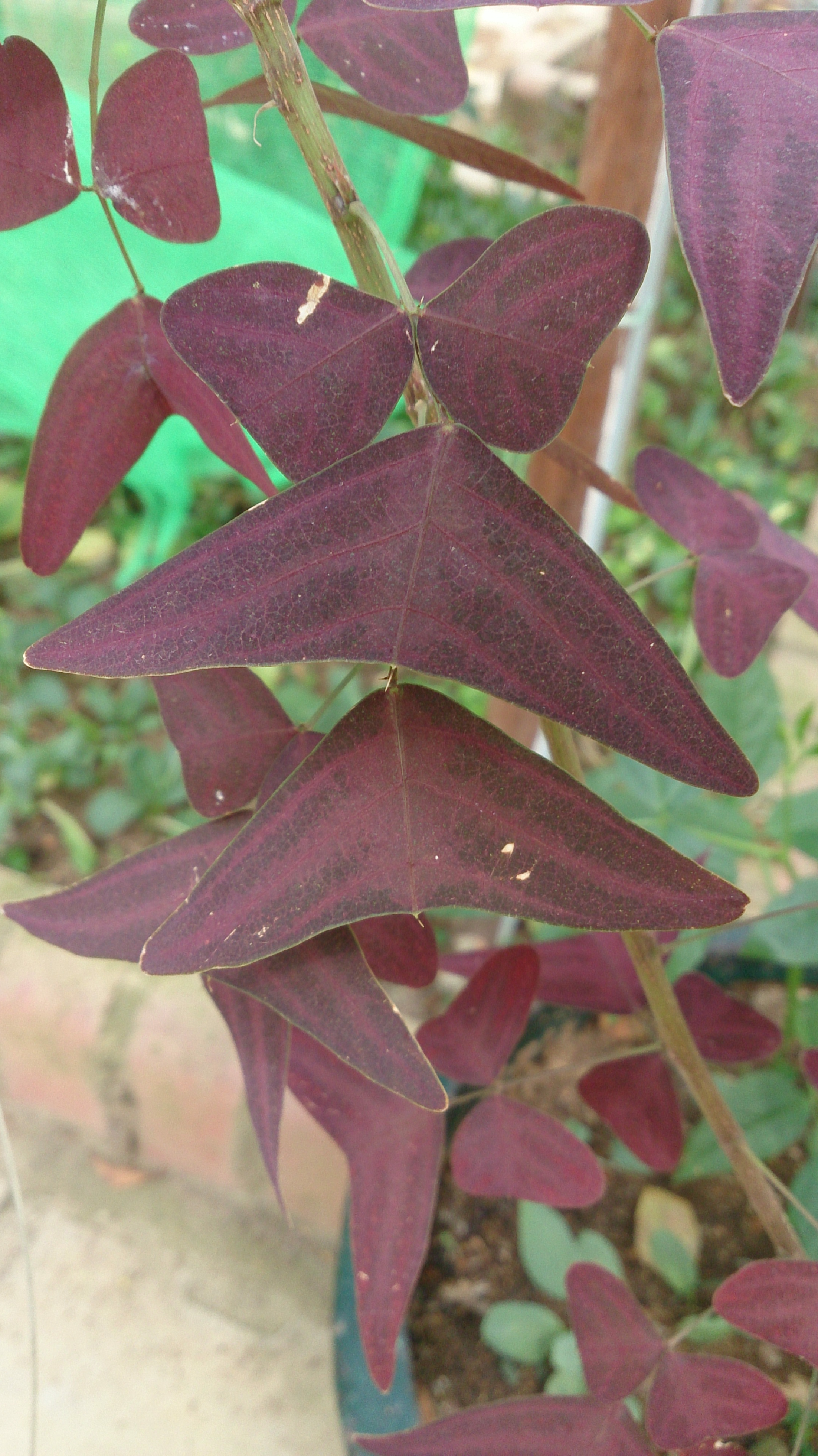 Christia vespertilionis. Common name: Red Butterfly Wing plant.